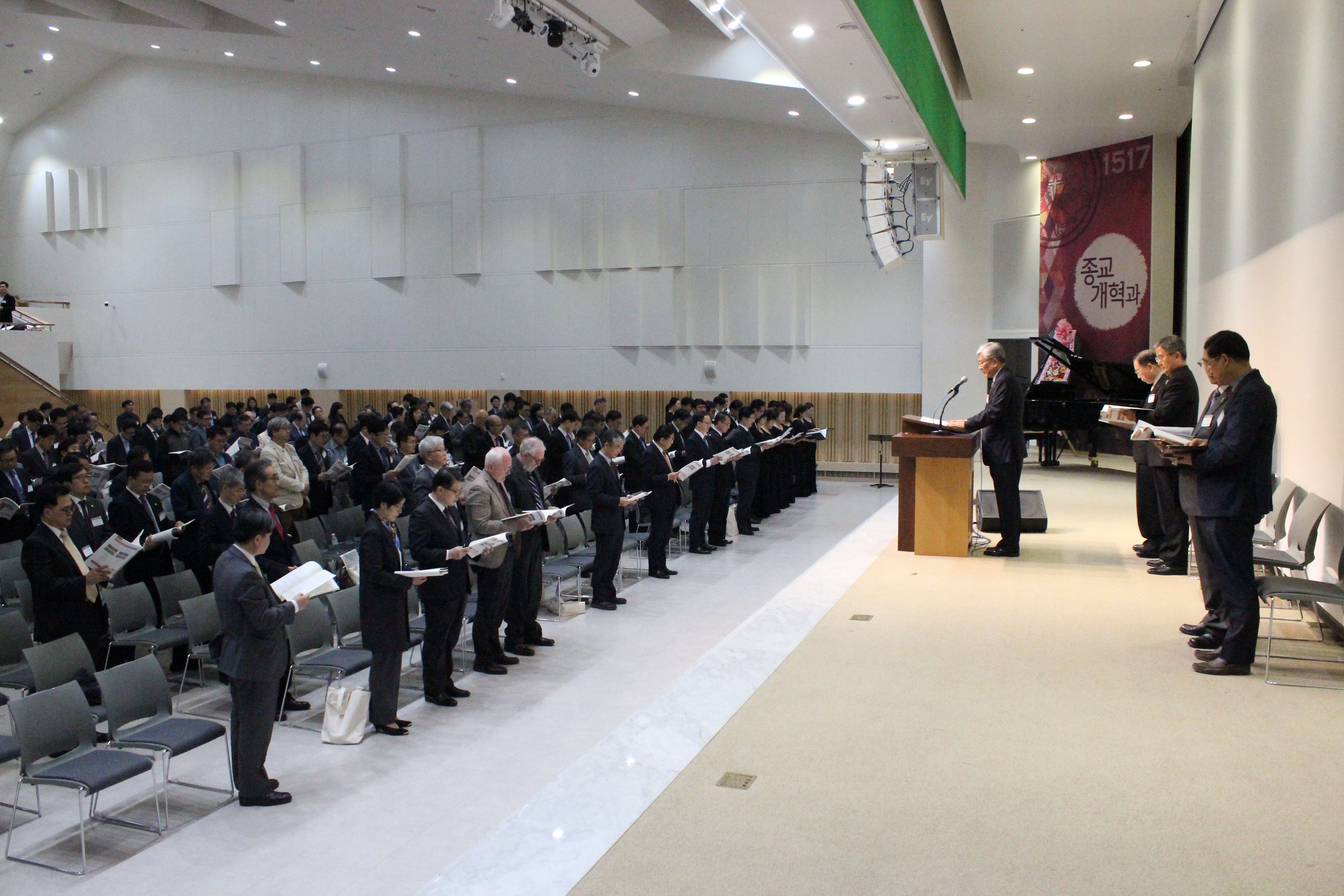 Worship in Academic Conference of Reformation 500th Anniversary